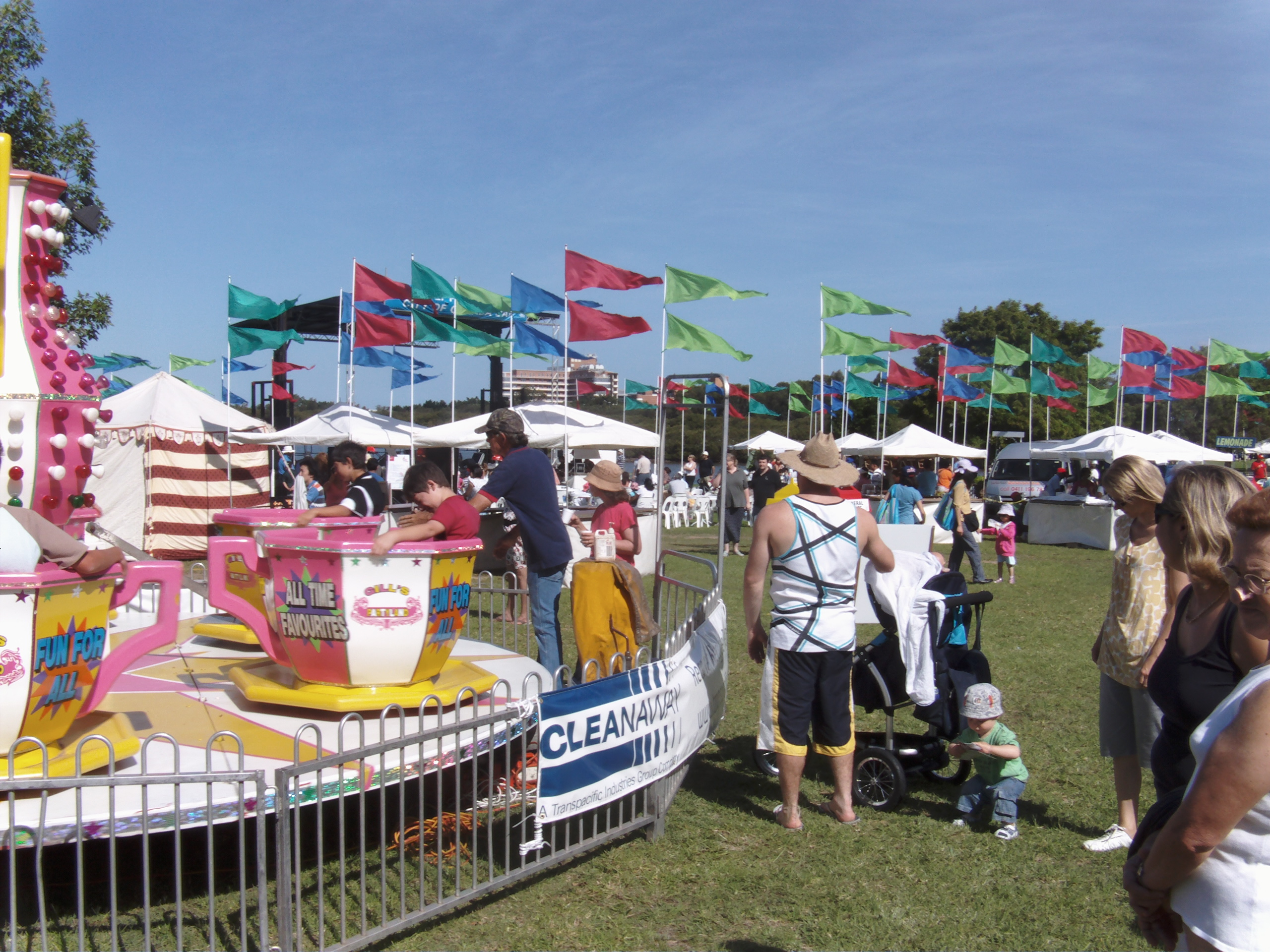 Bay Day at McIlwaine Park, Rhodes, NSW on 29 March 2009 with Concord General Hospital on the horizon in the background, sponsored by City of Canada Bay.